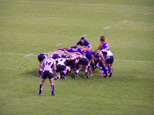 Prise le 18 septembre 2007 Rugby World Cup 2007 - Scotland v Romania